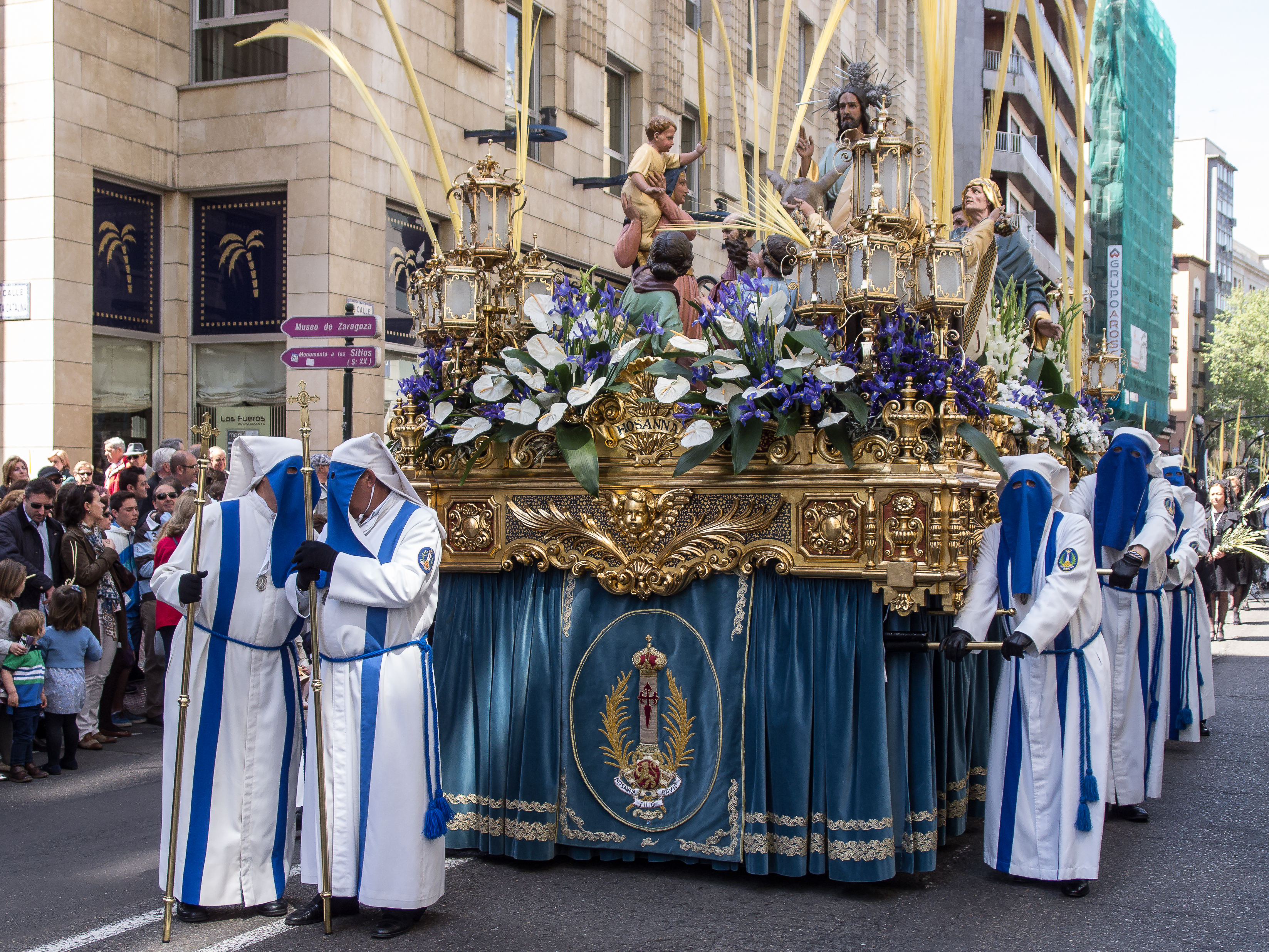 OLYMPUS DIGITAL CAMERA This is a photography of a Folklore festival in Spain (Wikidata id Q9075892).